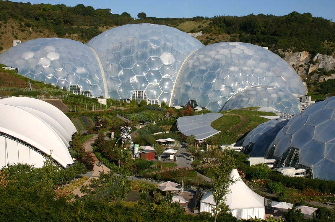 The Eden Project is a visitor attraction in Cornwall in the United Kingdom. Inside the artificial biomes are plants that are collected from all around the world. The project is located in a reclaimed Kaolinite pit, located 1.25 mi (2 kilometres) from the town of St Blazey and 5 kilometres (3 mi) from the larger town of St Austell, Cornwall